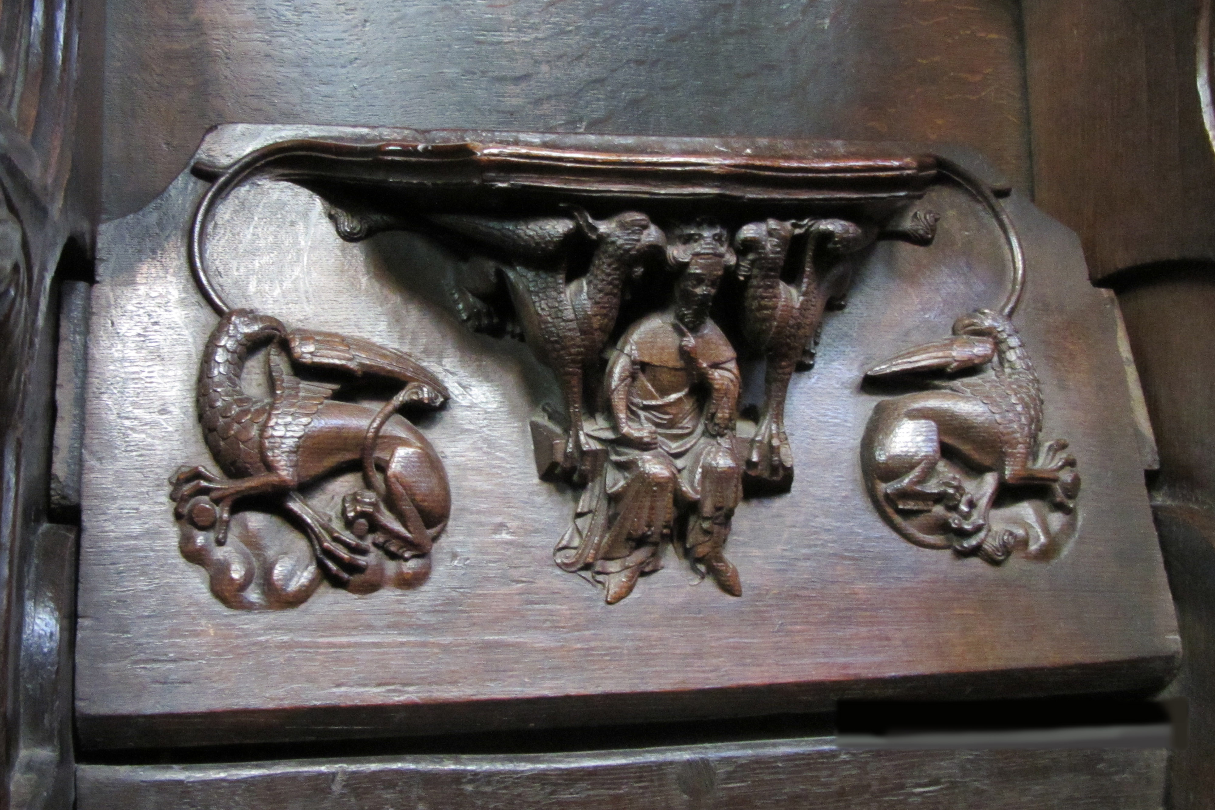 Chester Cathedral choir stalls, 1380, detail of a misericord depicting Alexander the Great being carried by gryphons